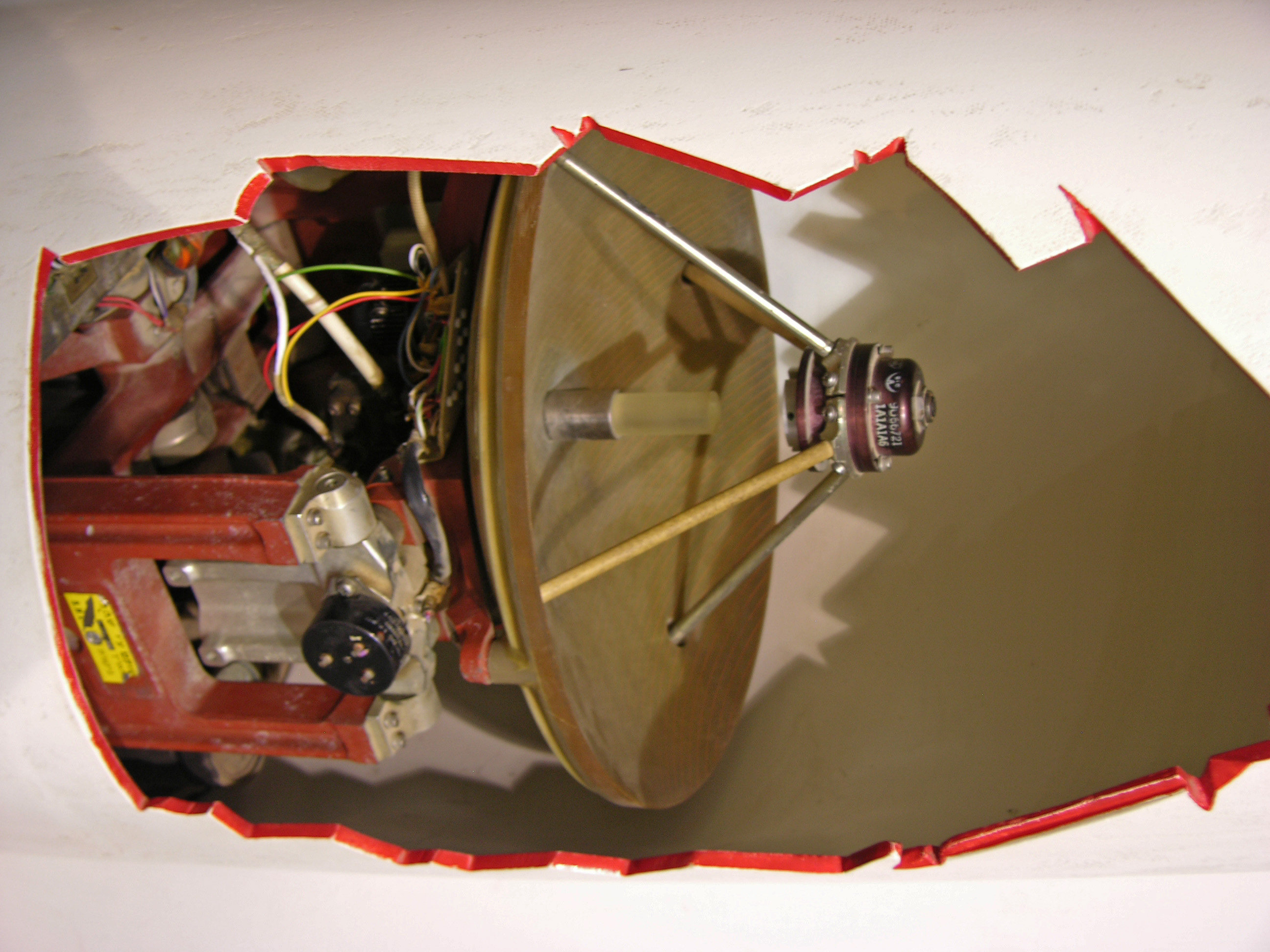 MIM-23 seeker head